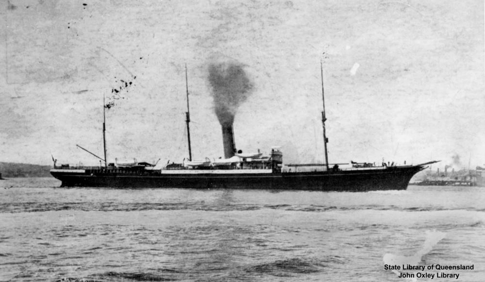 4,196 GRT passenger steamship Aorangi, built in 1883 by John Elder and Co. of Glasgow for the New Zealand Shipping Co. Sunk as a block ship at Scapa Flow in 1915. Copied from a postcard marked North Sydney, October 1907. (From description supplied with photograph.)